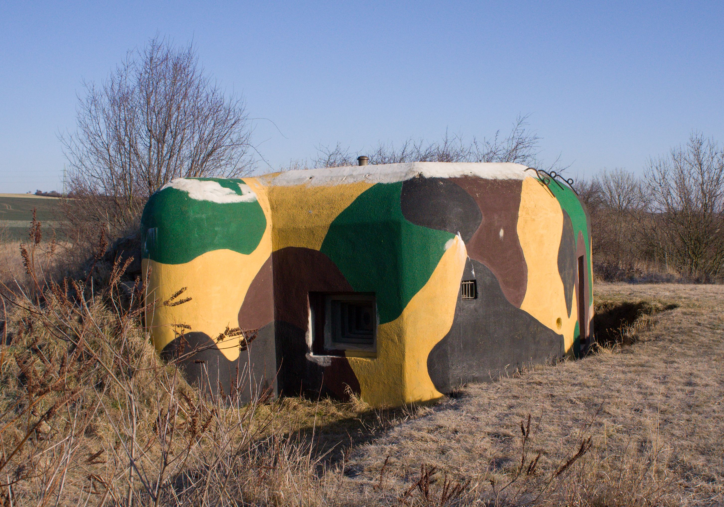 Light pillbox by Očihov from 1937 - small museum